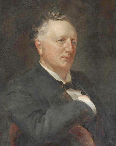 Photo of a portrait that used to hang in the CBS Bank head office in Sydney.